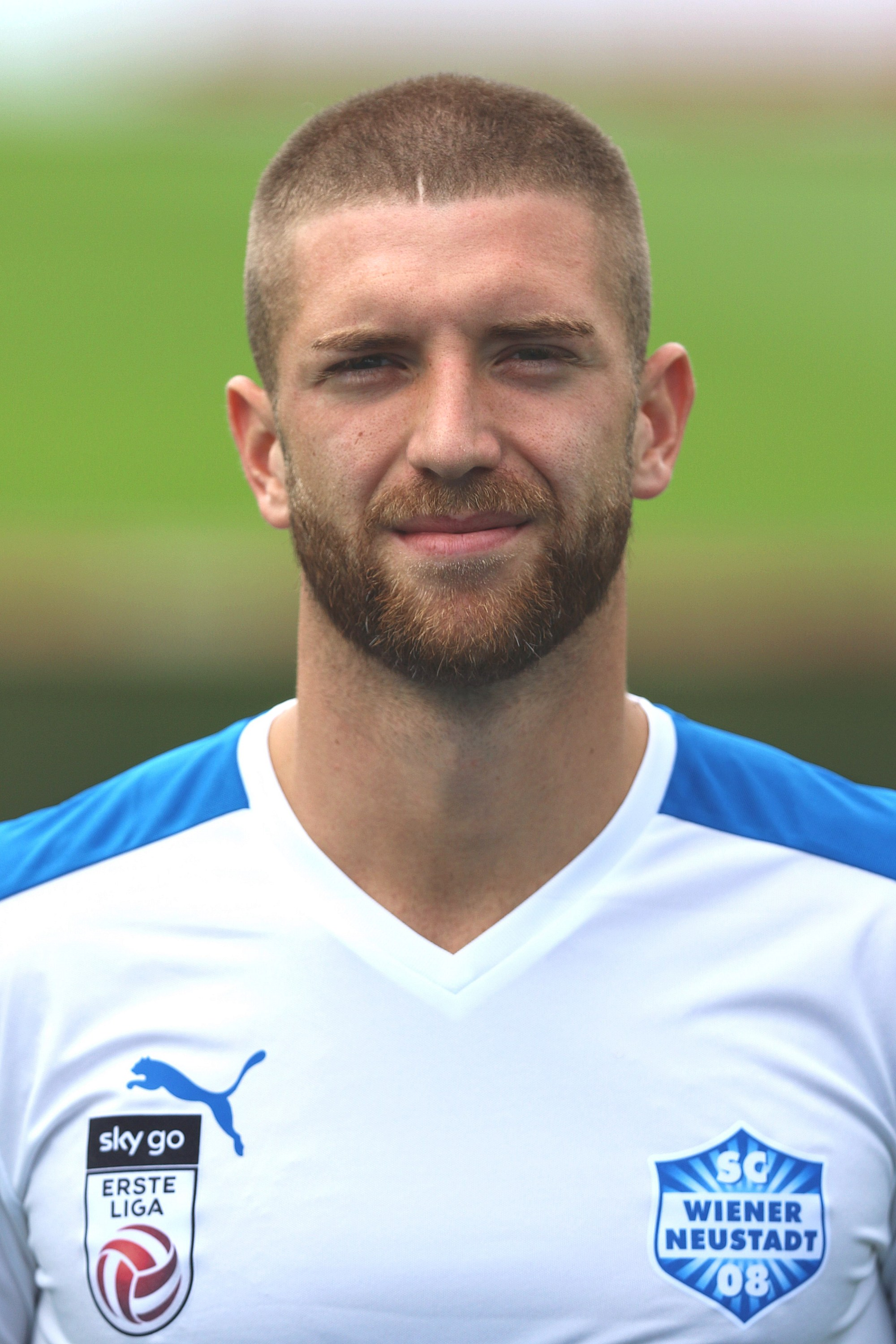 SC Wiener Neustadt squad presentation summer 2017. – The photo shows Mirza Jatic.